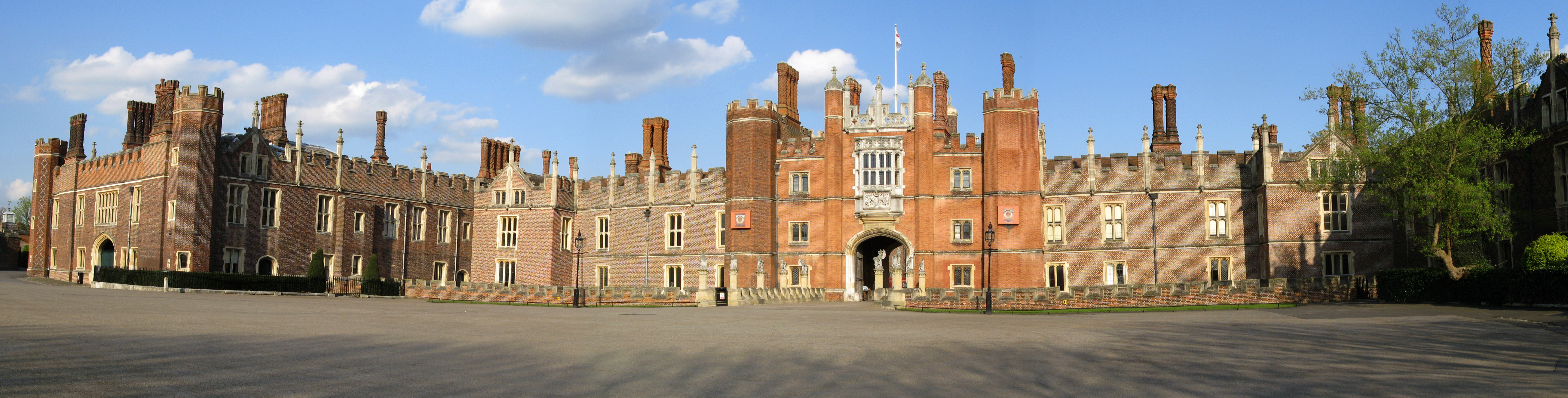 Hampton Court main entrance